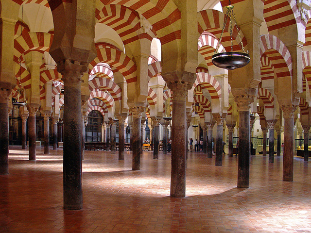 Mezquita of Cordoba